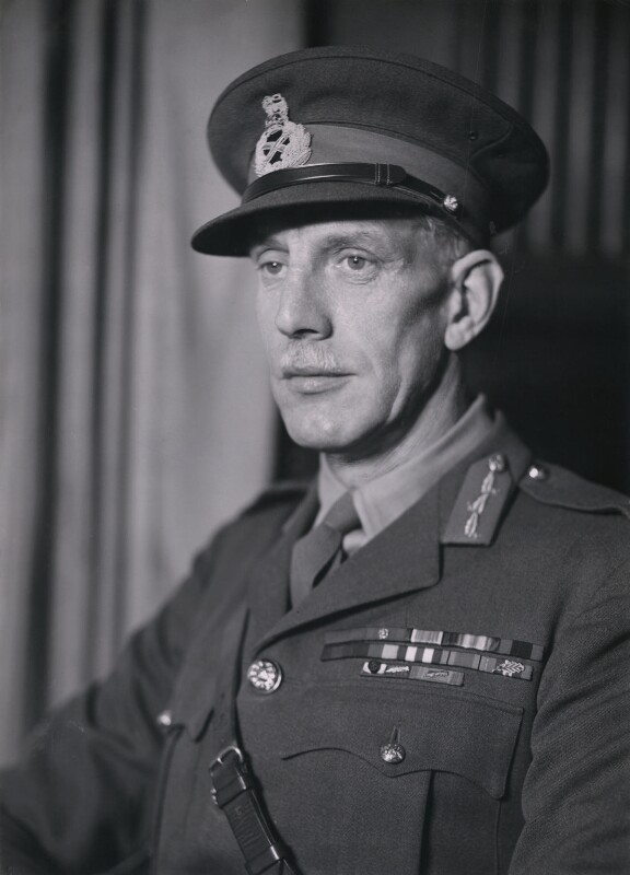 Portrait of Lieutenant General Sir Colin Barber